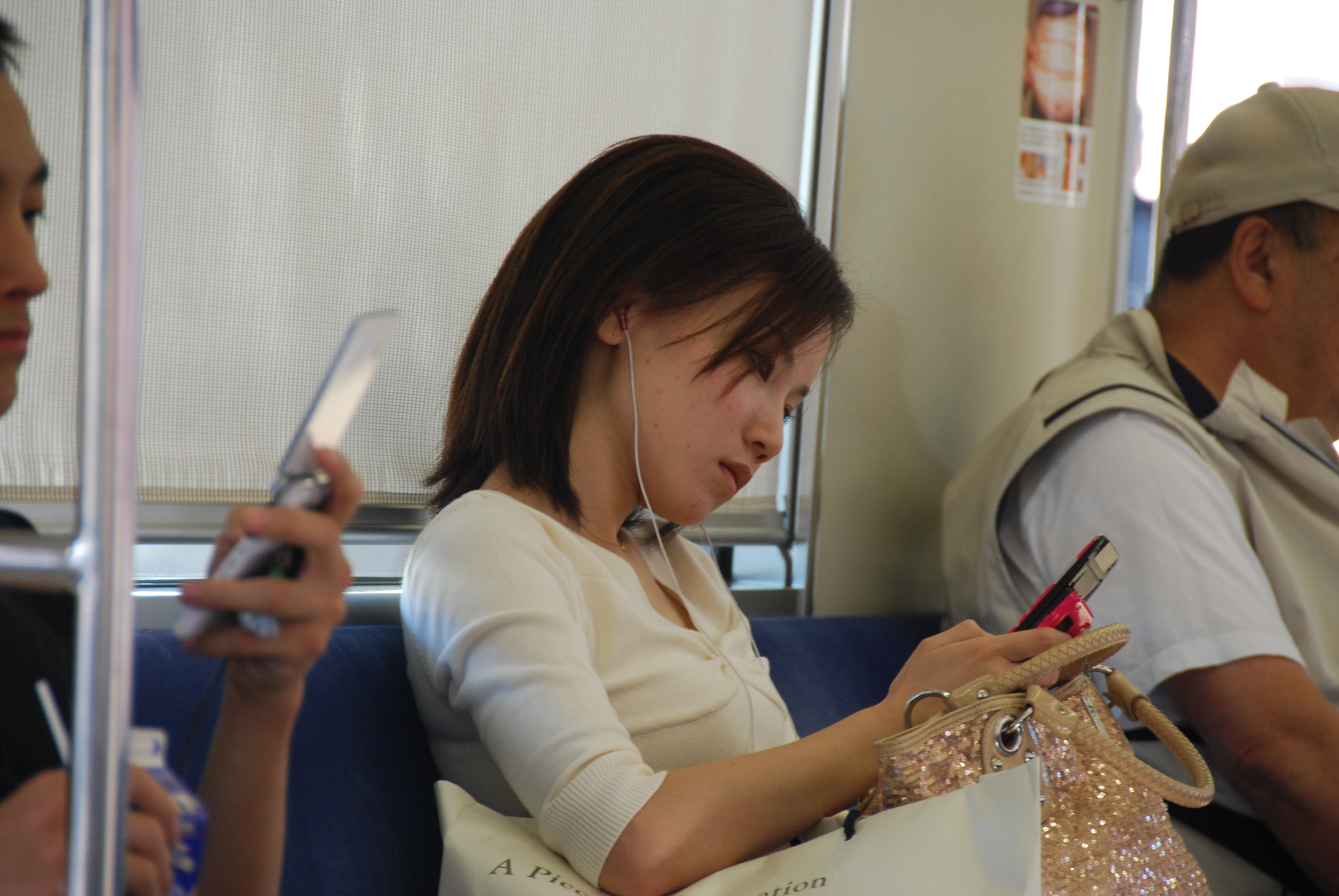 Japanese girl with mobile phone on train in Osaka